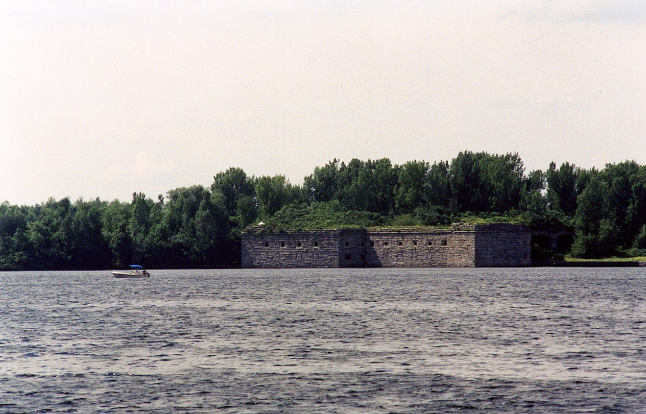 Fort Montgomery on Lake Champlain